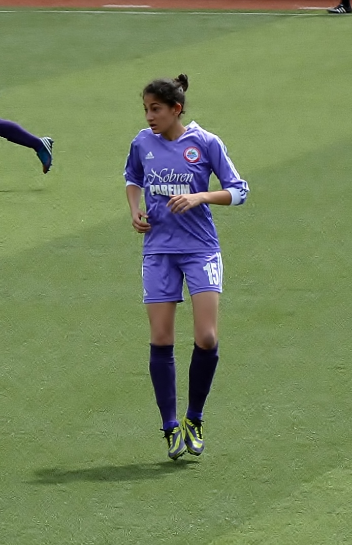 Damla Bozyel playing for Kdz. Ereğlispor in the 2013-14 season